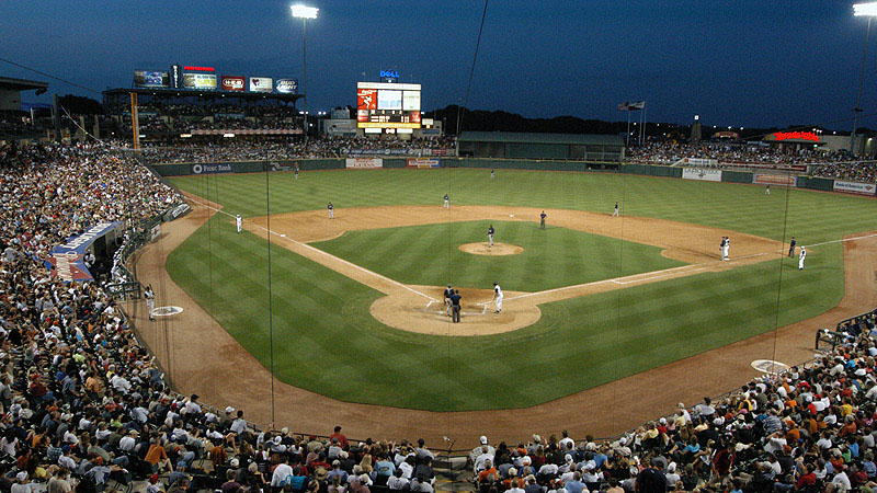 Image inside the Dell Diamond AAA baseball stadium taken from the press booth